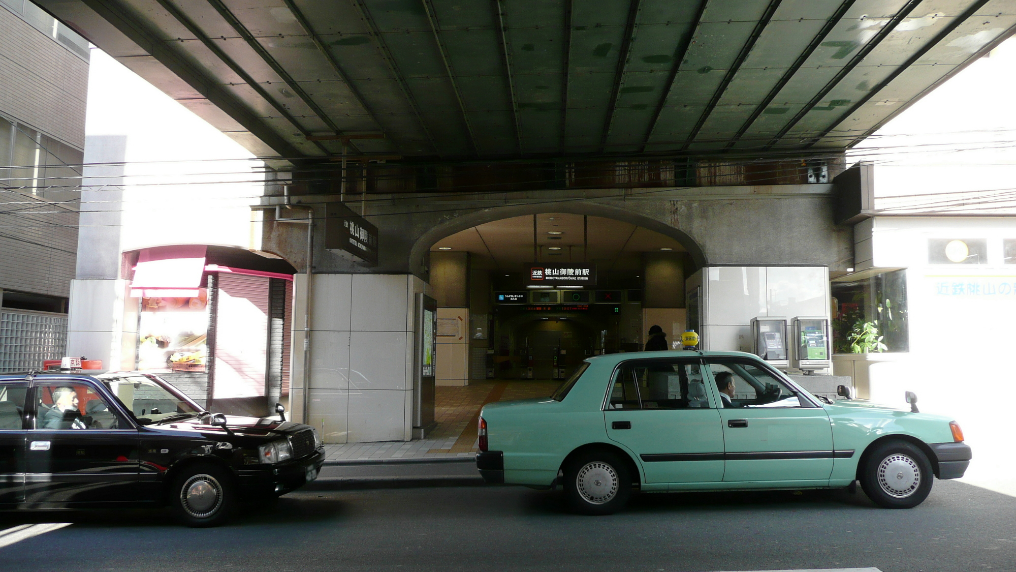 Kinki Nippon Railway,Kyoto Line Momoyamagoryomae Station. / 近鉄京都線桃山御陵前駅